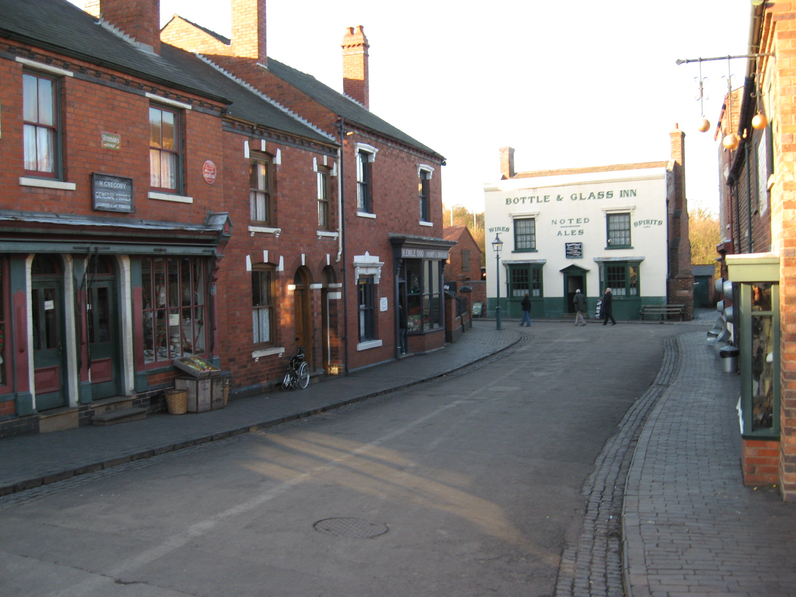 The main street in the Black Country Museum, Dudley, UK